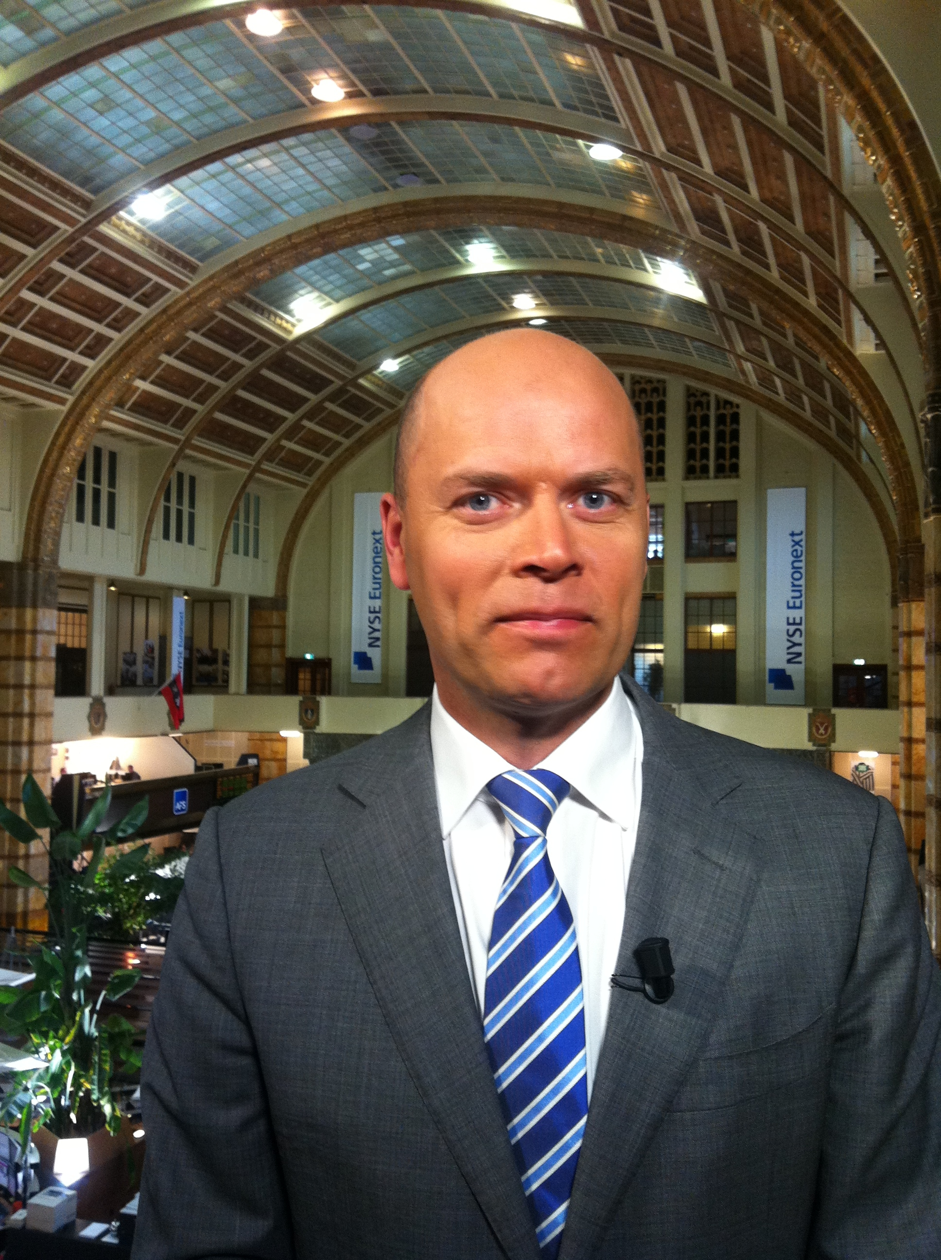 Dutch economist / journalist and financial market correspondent for RTLZ, Mathijs Bouman, in the tv-studio at the Amsterdam stock.